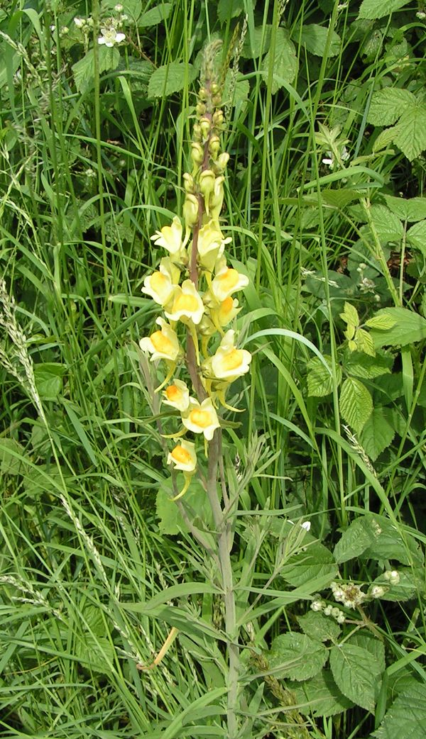 Common toadflax (Linaria vulgaris). Photo by sannse, Wivenhoe trail (Colchester to Wivenhoe), 9 June 2004.